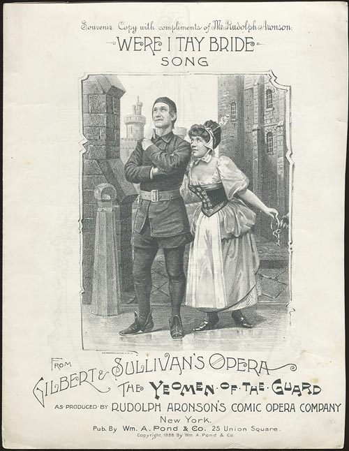 Souvenir copy of song, "Were I thy Bride" from the NY Casino Theatre production The Yeomen of the Guard, 1888